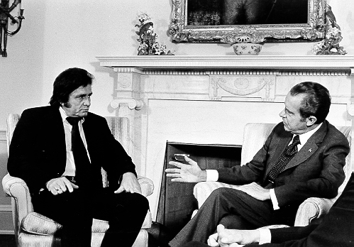 Johnny Cash during a meeting with Richard Nixon in the White House